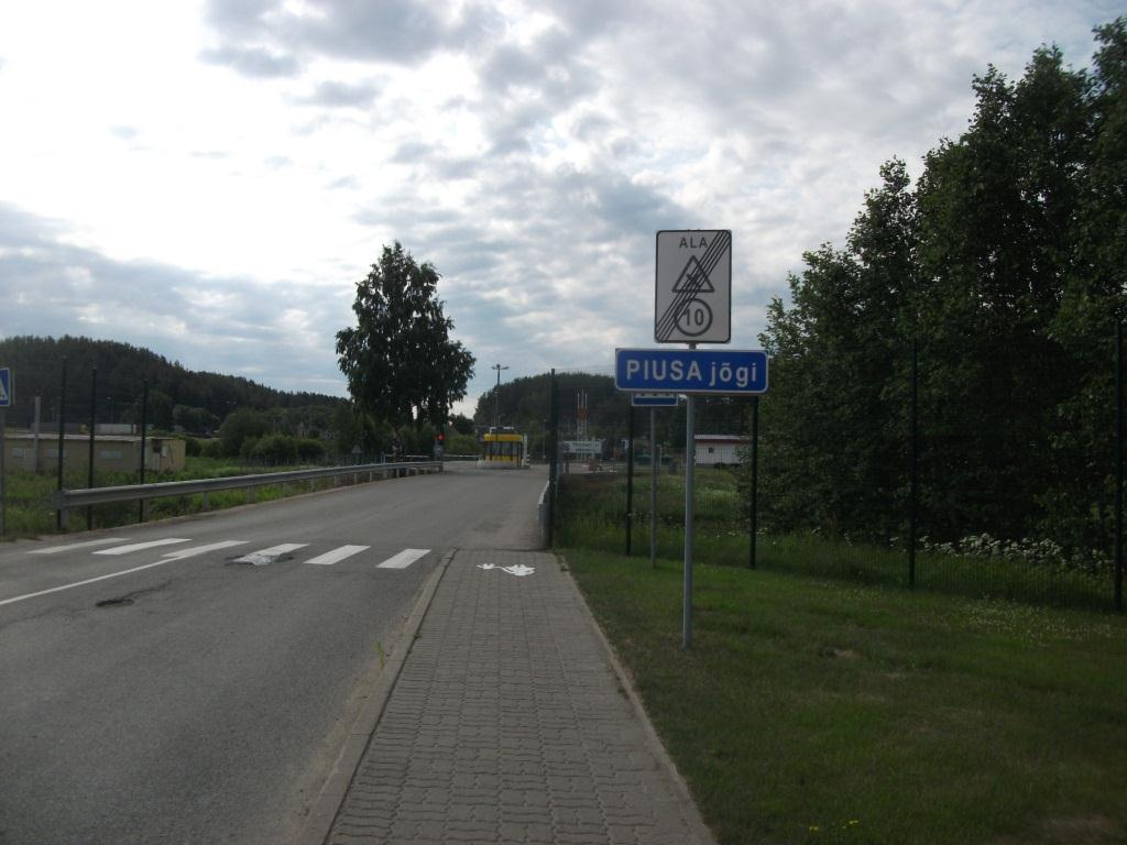 Check Point Koidula